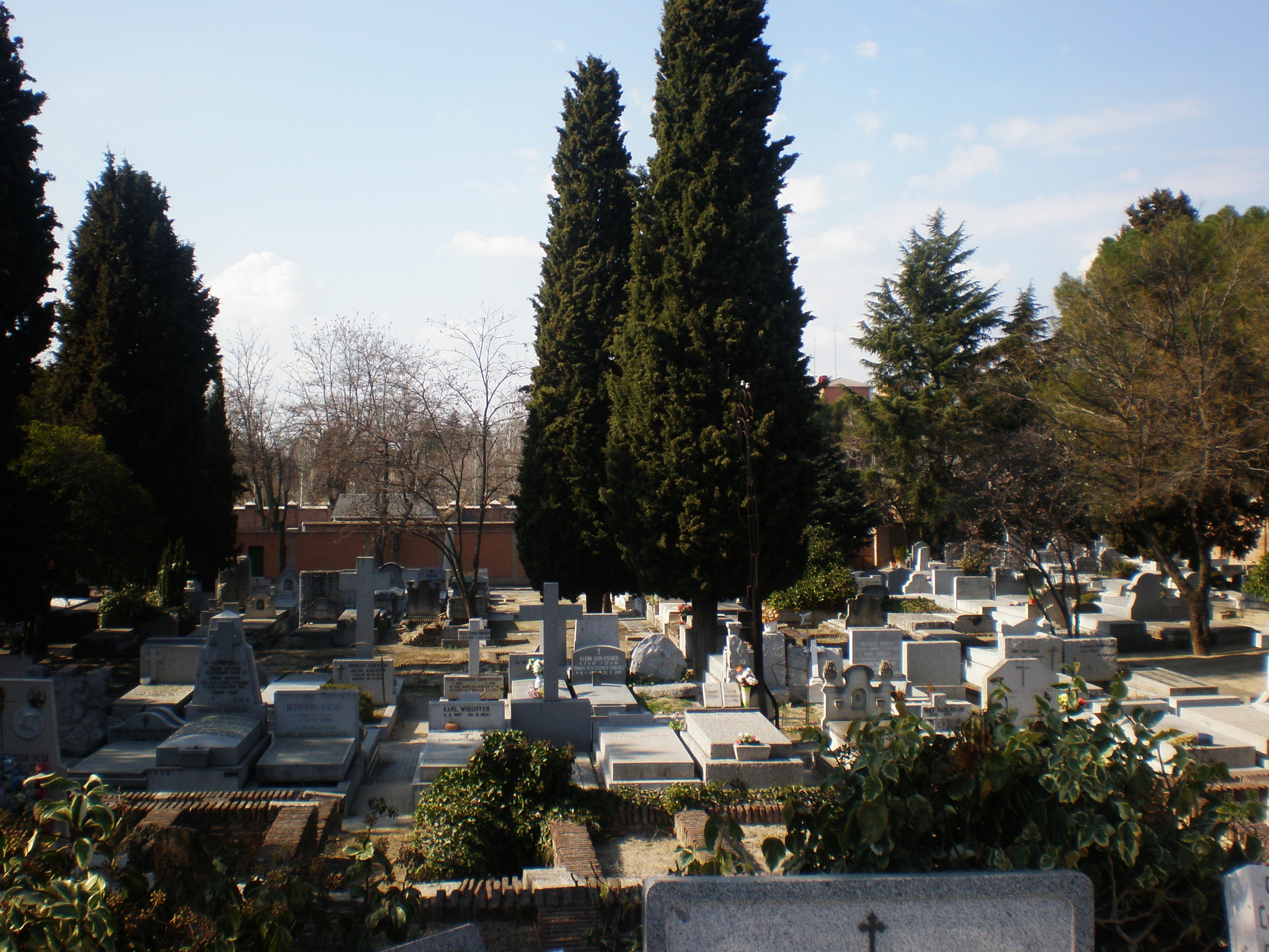 Inside view of Cementerio civil de Madrid (Civil Cemetery of Madrid)